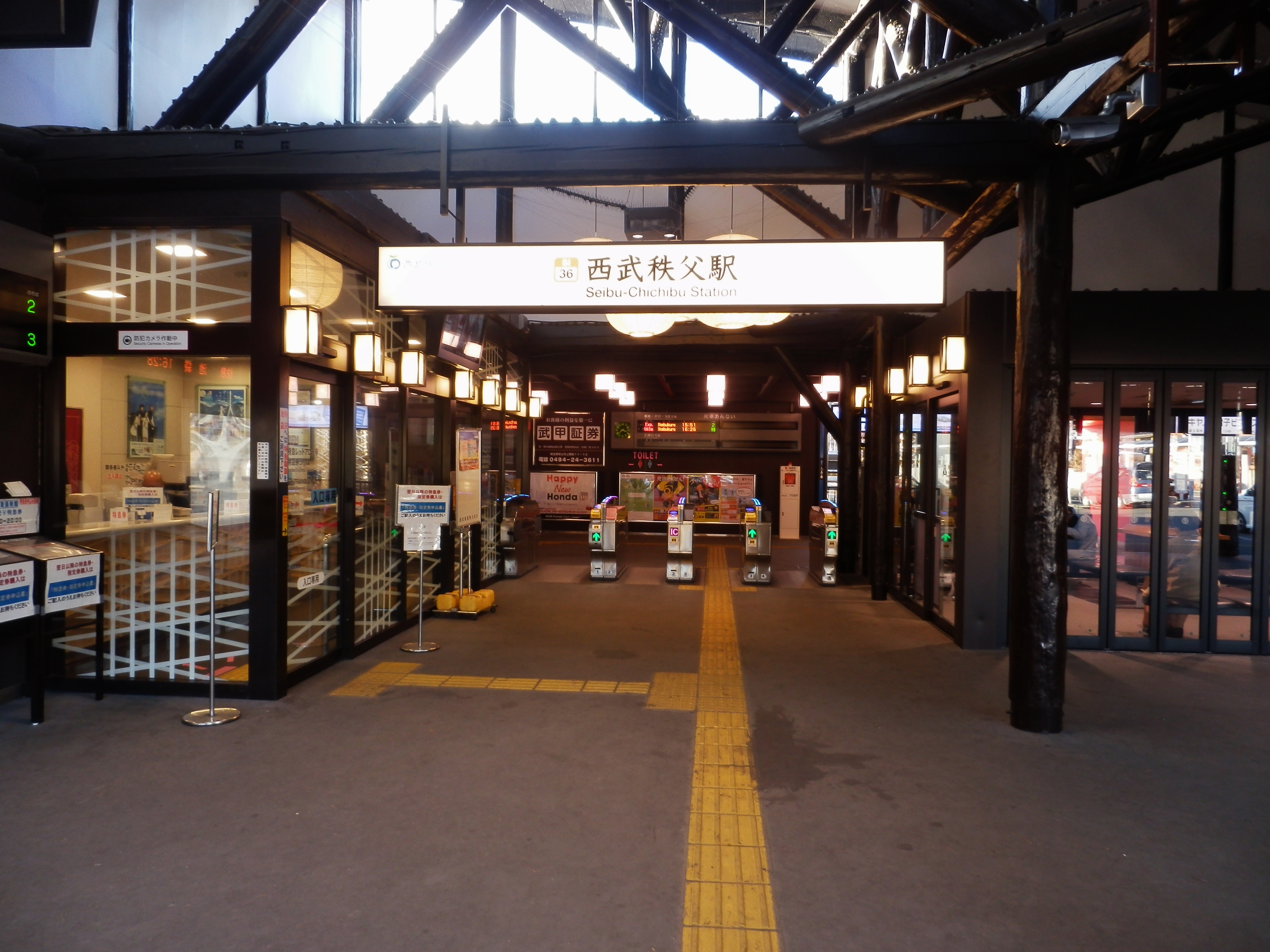 Seibu-Chichibu Station